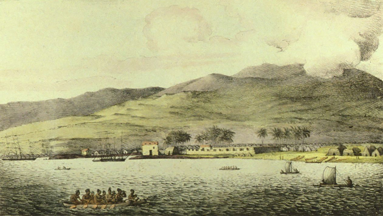 Vue du port hanarourou (View of the port of Honolulu), 1816. Louis Choris, artist. Published in Voyage Pittoresque du Autour du Monde, Paris, 1822.